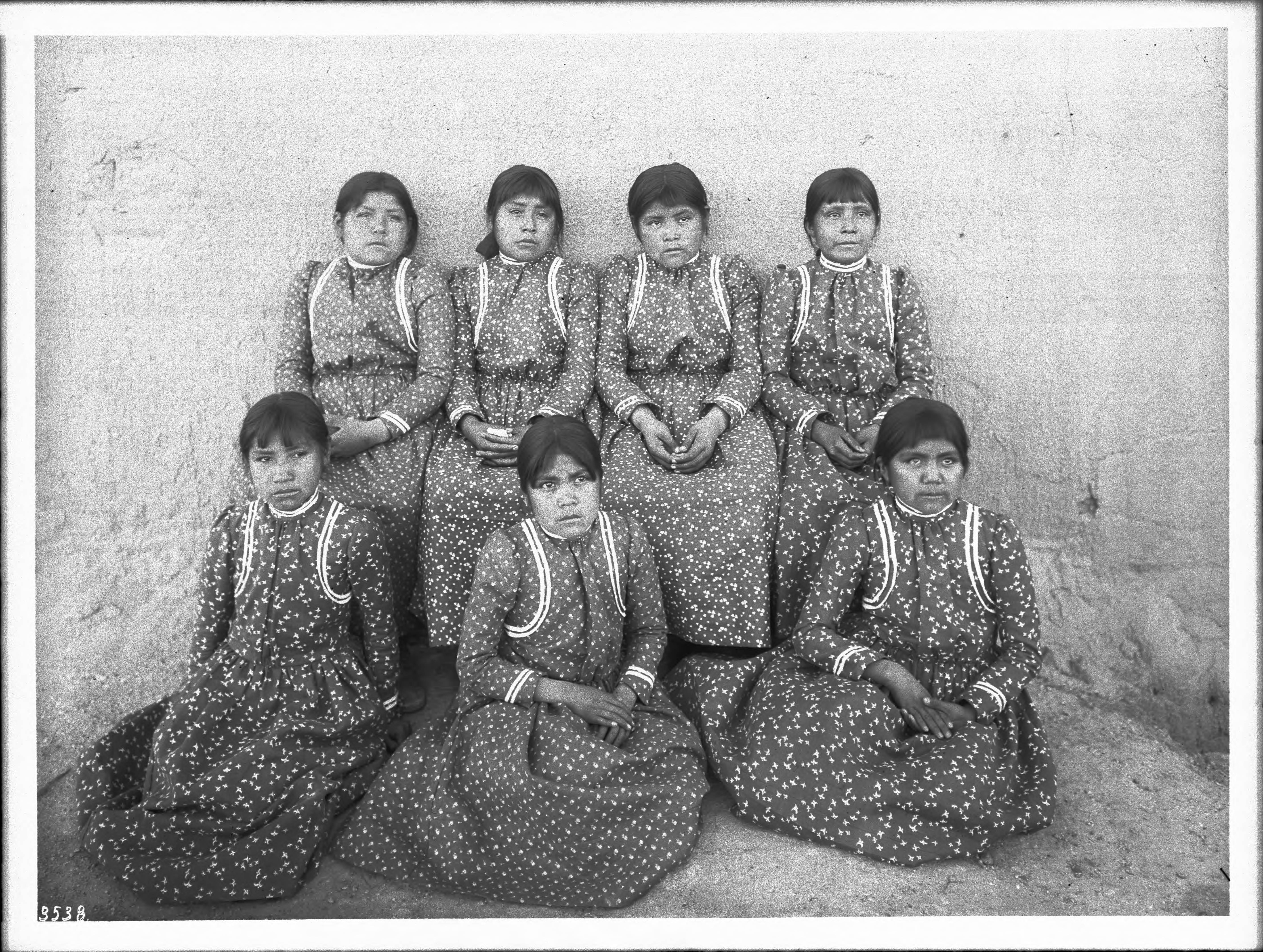 Small group of Yuma Indian girls posing at the government Indian School at Yuma, ca.1900 Photograph of a group of 7 Yuma Indian girls posing in front of an adobe wall at the government Indian School at Yuma, ca.1900. Four stand behind three sitting. They all wear dresses of the same design -- a dotted print. Call number: CHS-3538 Photographer: Pierce, C.C. (Charles C.), 1861-1946 Filename: CHS-3538 Coverage date: circa 1900 Part of collection: California Historical Society Collection, 1860-1960 Format: glass plate negatives Type: images Geographic subject (city or populated place): Yuma Repository name: USC Libraries Special Collections Accession number: 3538 Microfiche number: 1-184- Archival file: chs_Volume95/CHS-3538.tiff Part of subcollection: Title Insurance and Trust, and C.C. Pierce Photography Collection, 1860-1960 Repository address: Doheny Memorial Library, Los Angeles, CA 90089-0189 Geographic subject (country): USA Format (aacr2): 1 photograph : glass photonegative, b&w ; 17 x 22 cm.; 1 photograph : photoprint, b&w ; 8 x 10 in. Rights: Digitally reproduced by the USC Digital Library; From the California Historical Society Collection at the University of Southern California Subject (adlf): tribal areas Repository Contributing entity: California Historical Society Date created: circa 1900 Publisher (of the digital version): University of Southern California. Libraries Format (aat): photographs Geographic subject (state): Arizona Legacy record ID: chs-m16148 Access conditions: Send requests to address or e-mail given. Phone (213) 821-2366; fax (213) 740-2343. Subject (lcsh): Indians of North America; Children; Yuma Indians; Schools Subject: Yuma Indians; Indians of North America -- Portraits; Indians